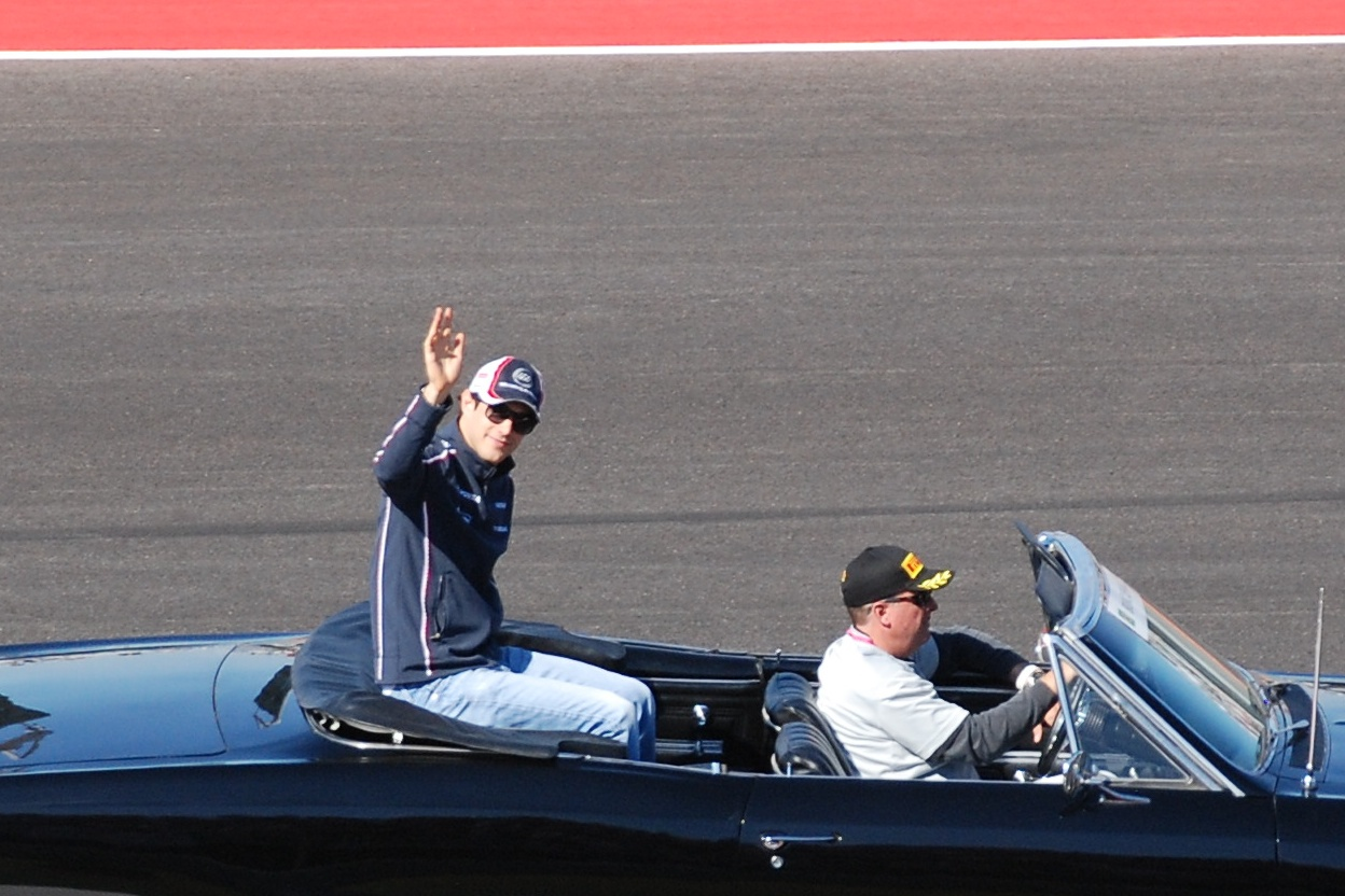 Bruno Senna, United States Grand Prix, Austin 2012